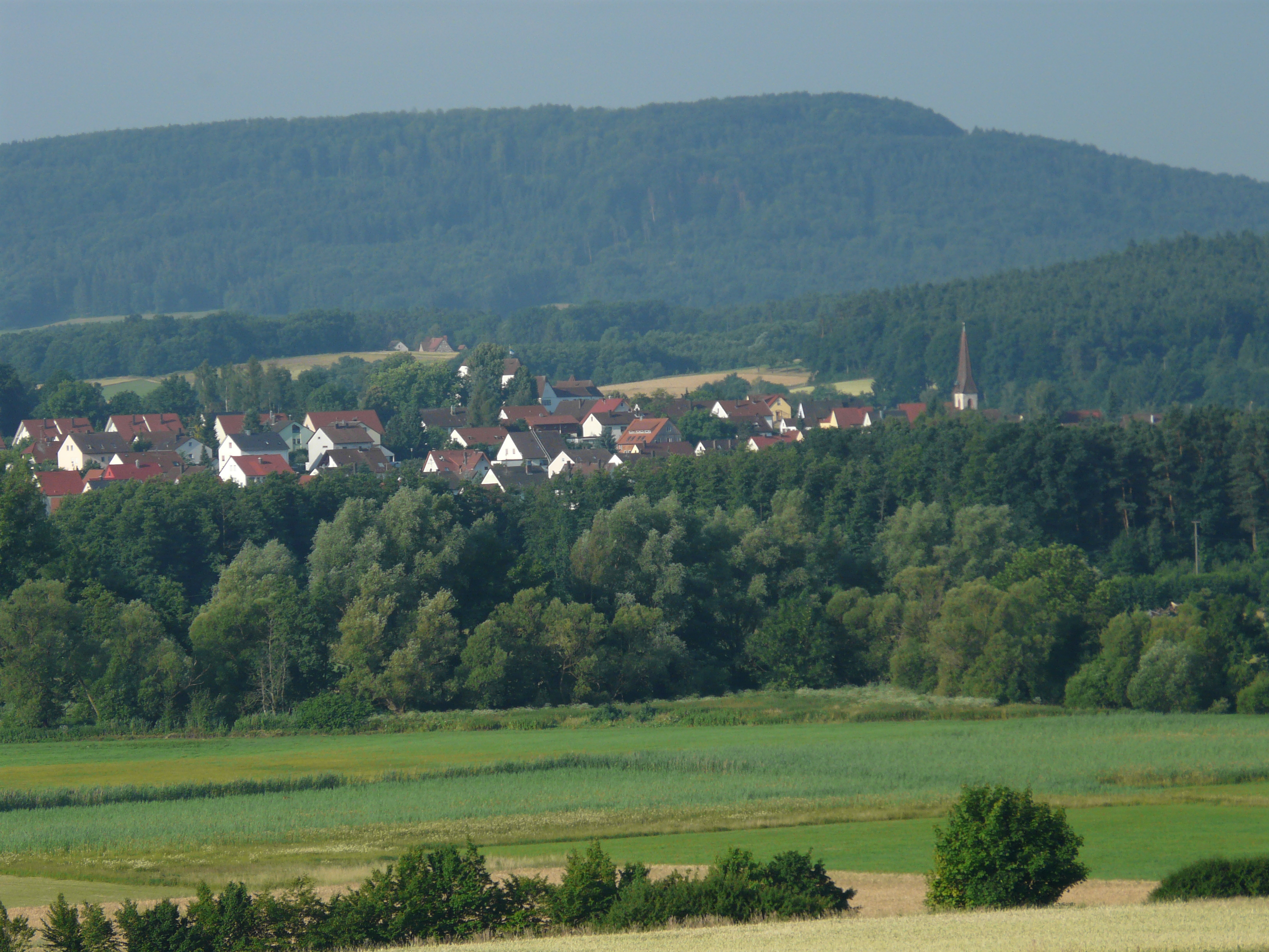 Henfenfeld in Middle Franconia, Bavaria, Germany.